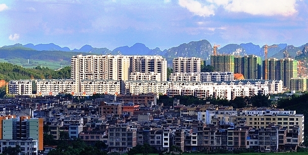 Fuzsuih Yen